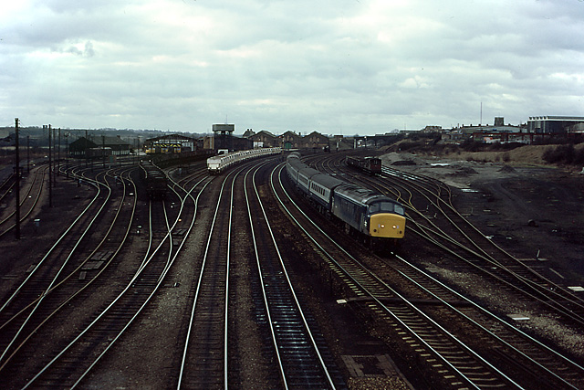 Wellingborough Yard and Depot Seen from the Finedon Road bridge, a northbound express passes the yards north of Wellingborough. On the left, The diesel depot can be seen along with the water tower and the freight depot. The brick building is the original Midland Railway goods depot. A train of white roadstone wagons stands in the sidings. Since this photo was taken, the sidings on the right hand side of the mainline have been lifted entirely. Those on the left have also been lifted and the area is completely overgrown. The empty shell of diesel depot and the water tower still stand. The freight sheds and goods depot remain in good condition.